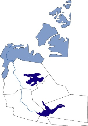 The Inuvik Region in relation to the Northwest Territories.